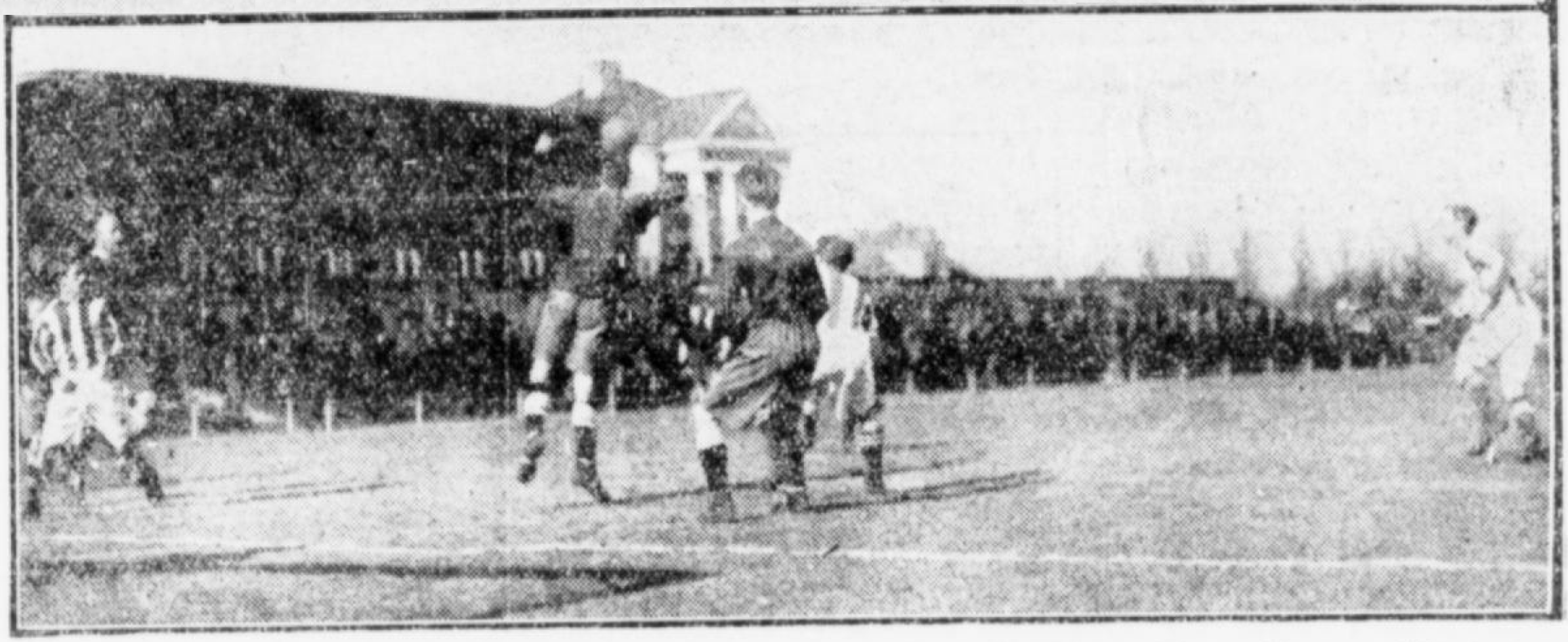 Match action during the season of 1927–28 KBUs Mesterskabsrække — Picture shows a Copenhagen Football Championship association football match at Københavns Idrætspark on 1 March 1928 between Akademisk BK (AB) and Kjøbenhavns BK (KB). Players at the left side of the pictures are Eyolf Kleven and Steen Steensen Blicher, while a KB player is in the air heading for the football with his team colleague Erik Eriksen behind him.